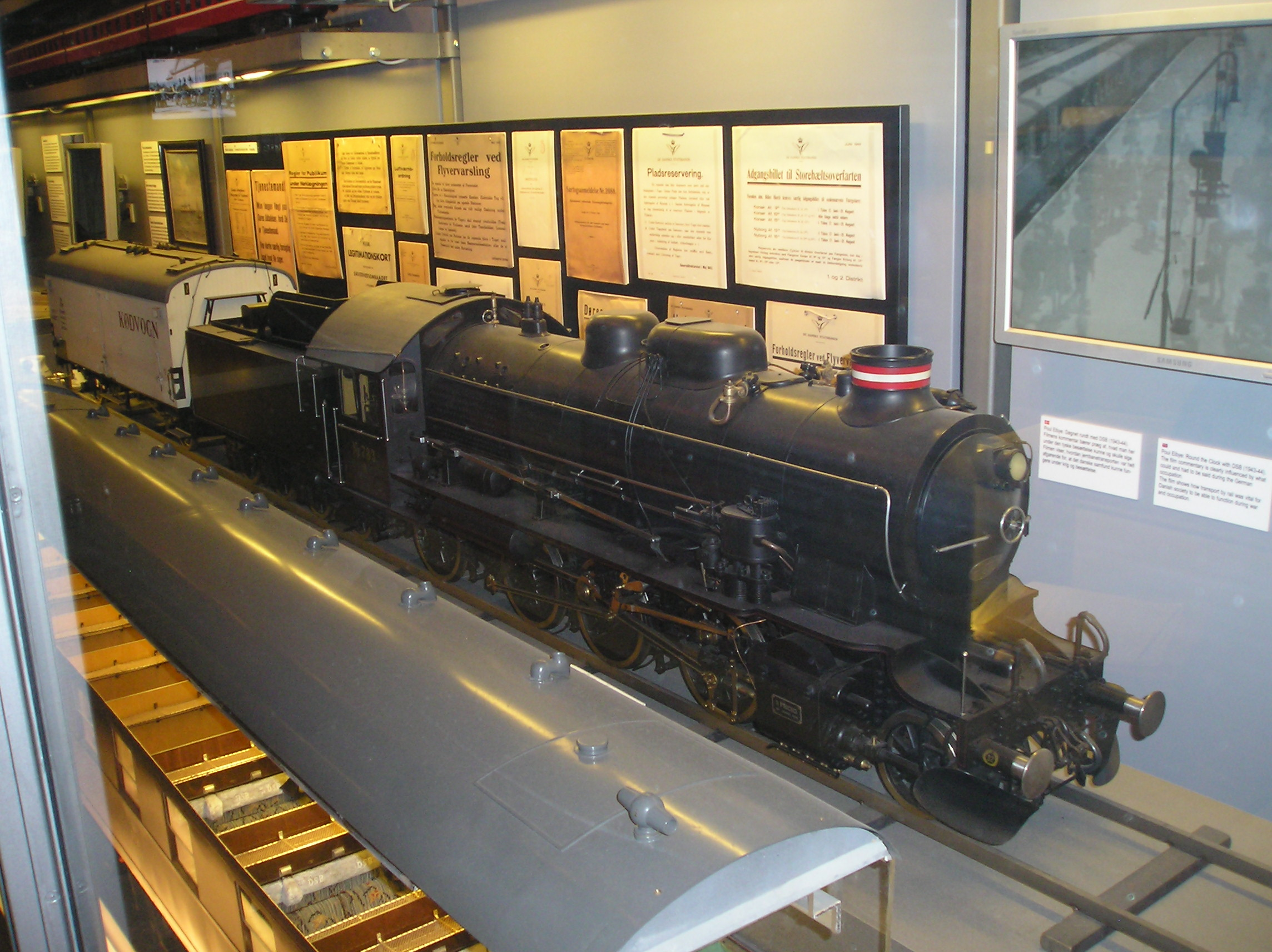 Model of the Danish steam locomotive DSB H 783 in Danmarks Jernbanemuseum.